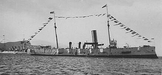 SATS General Botha in 1925, Simon's Town.